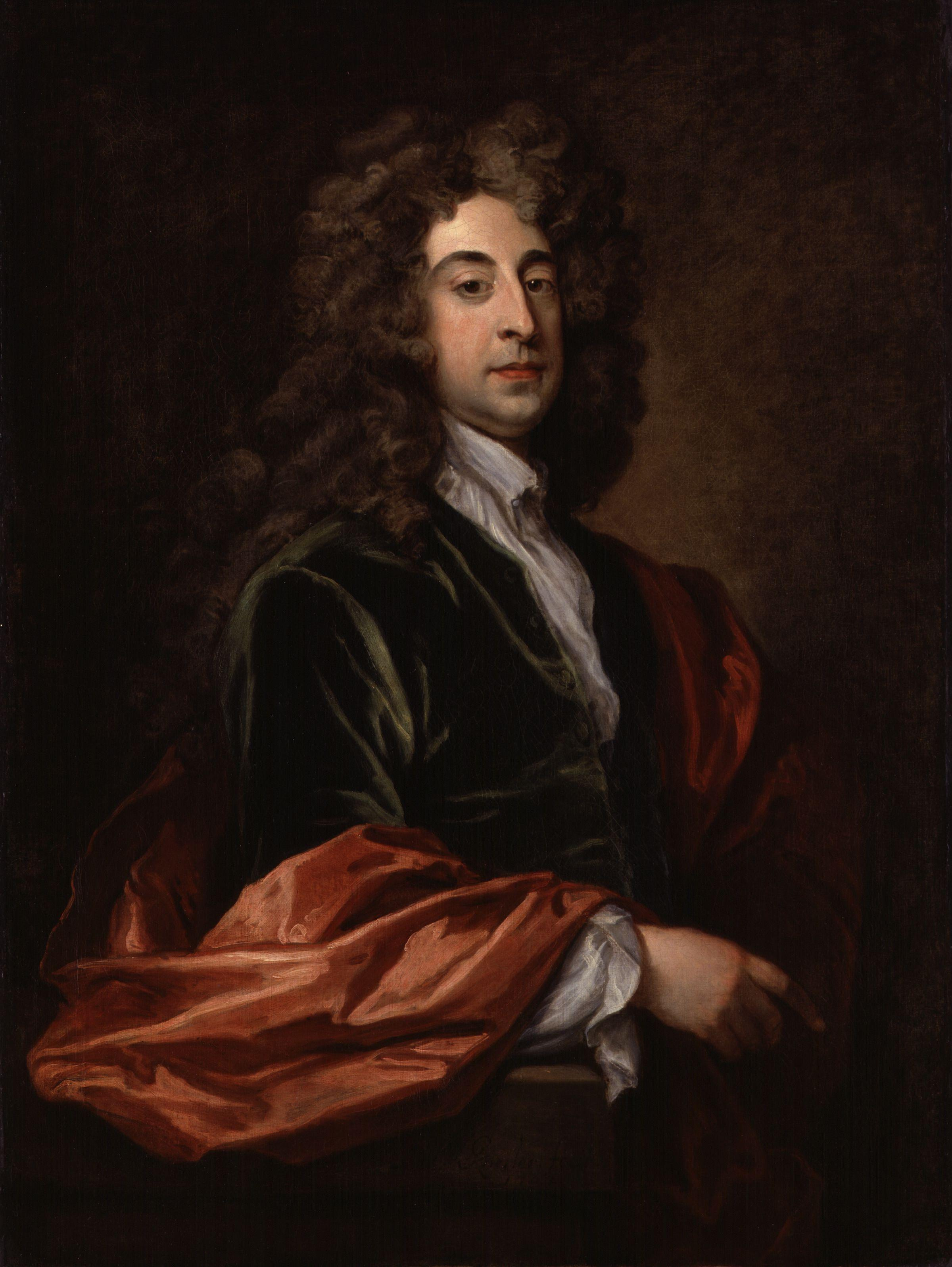 All images in this batch have been confirmed as author died before 1939 according to the official death date listed by the NPG.